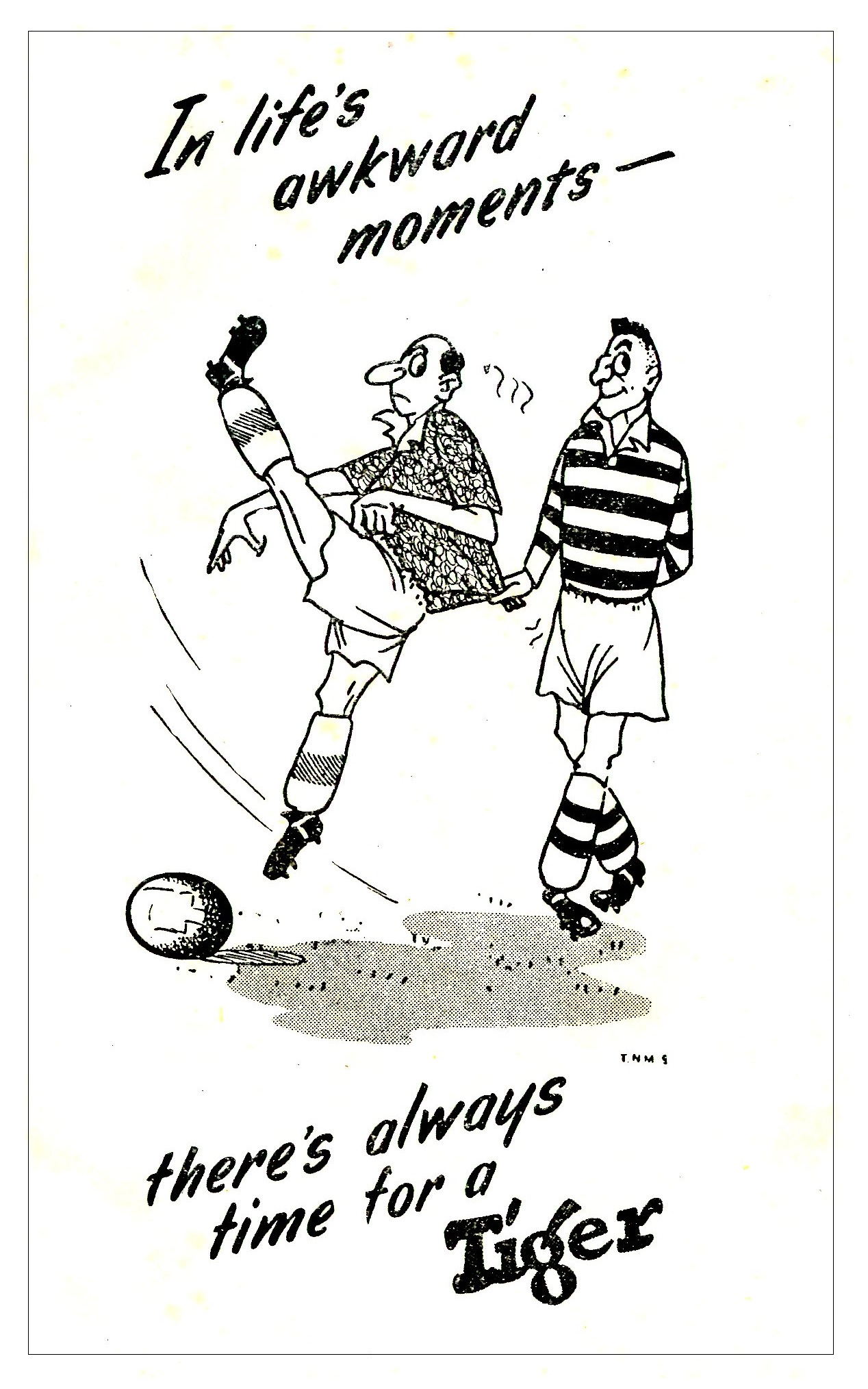 Advert from SAFA Handbook 1952